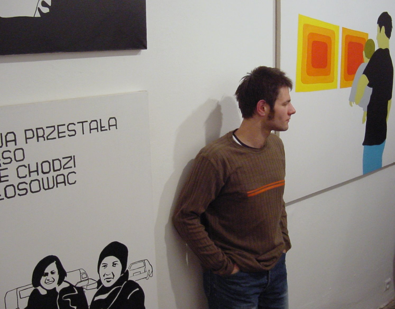 Wilhelm Sasnal in Raster Gallery, 2001